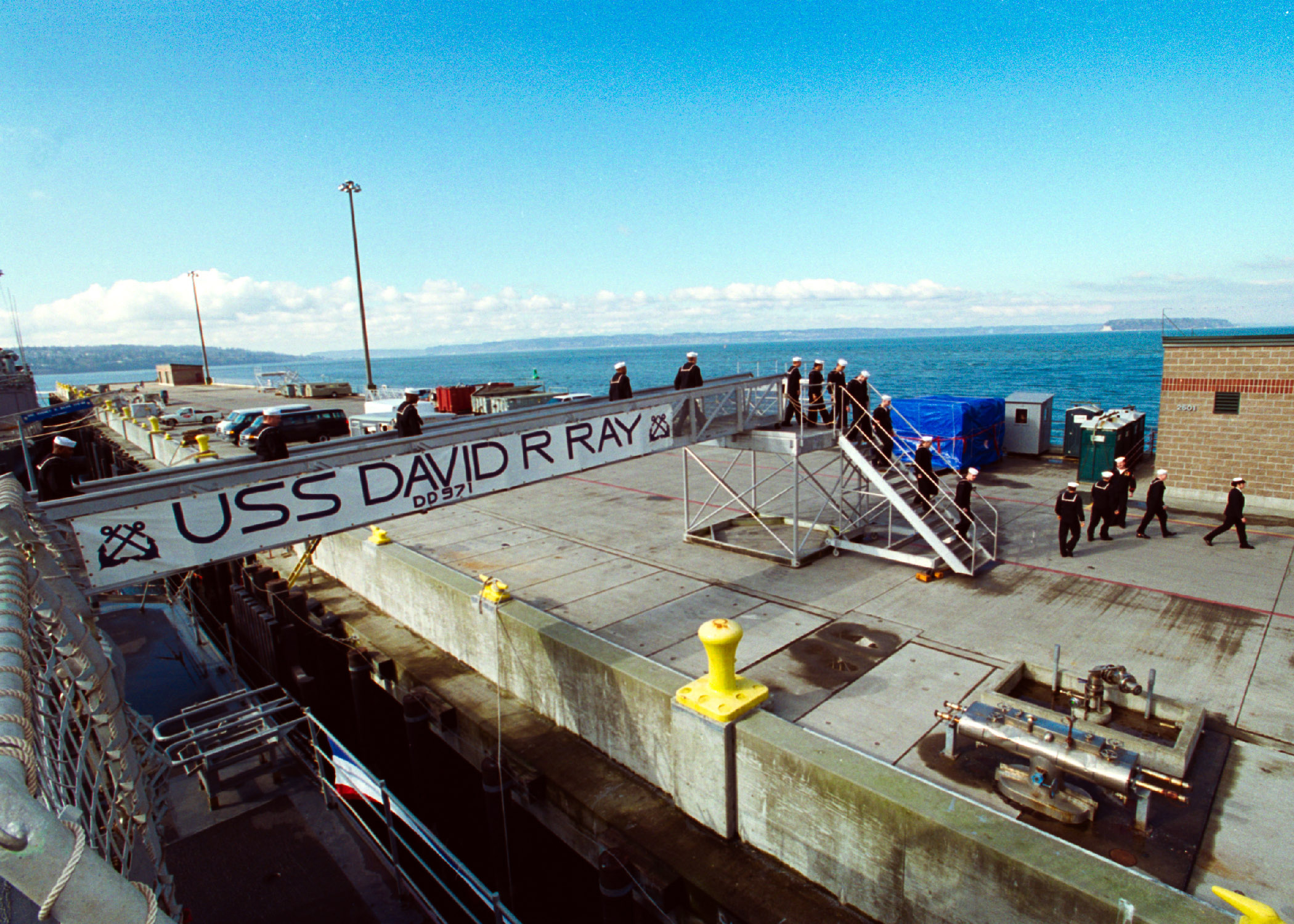 020228-N-5374S-001 Naval Station Everett, WA (Feb. 28, 2002) -- Sailors aboard the destroyer USS David R. Ray (DD 971) disembark as the watch is secured and colors are drawn during the Ray's decommissioning ceremony. USS David R. Ray (DD 971) served for nearly 25 years from Nov. 19, 1977 until Feb. 28, 2002. U.S. Navy photo Photographer’s Mate 1st Class Patrick J. Sullivan. (RELEASED)